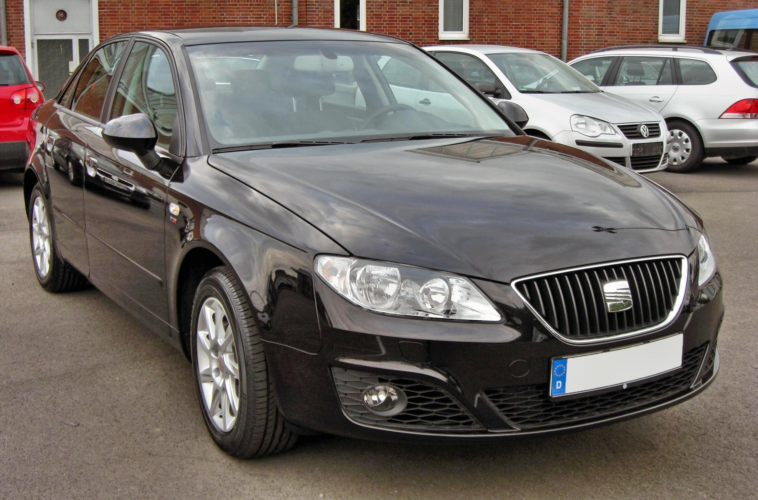 SEAT Exeo